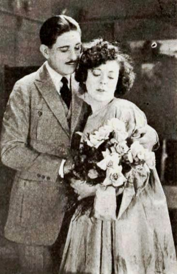 Still from the American drama film They Shall Pay (1921) with Allan Forrest and Lottie Pickford, on page 56 of the July 16, 1921 Exhibitors Herald.